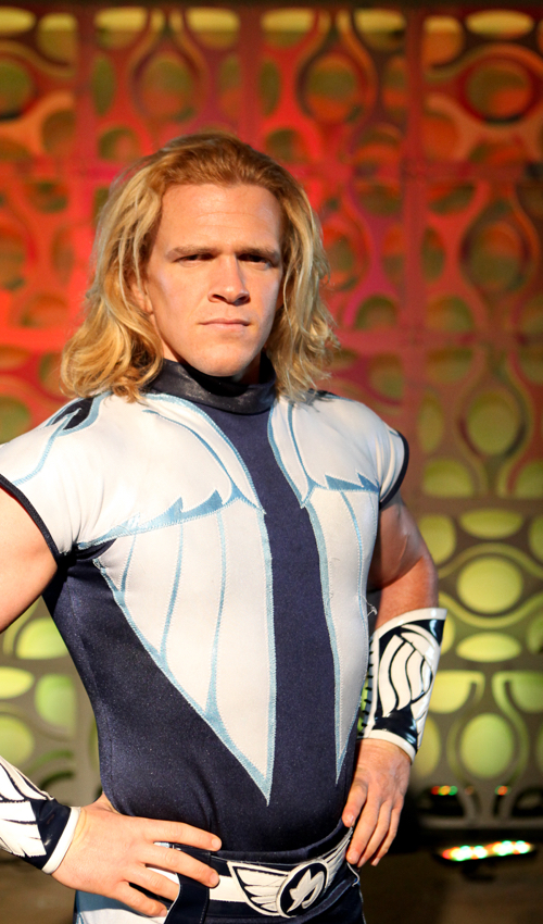 Photo of CHIKARA wrestler Icarus taken in Feb 2016.